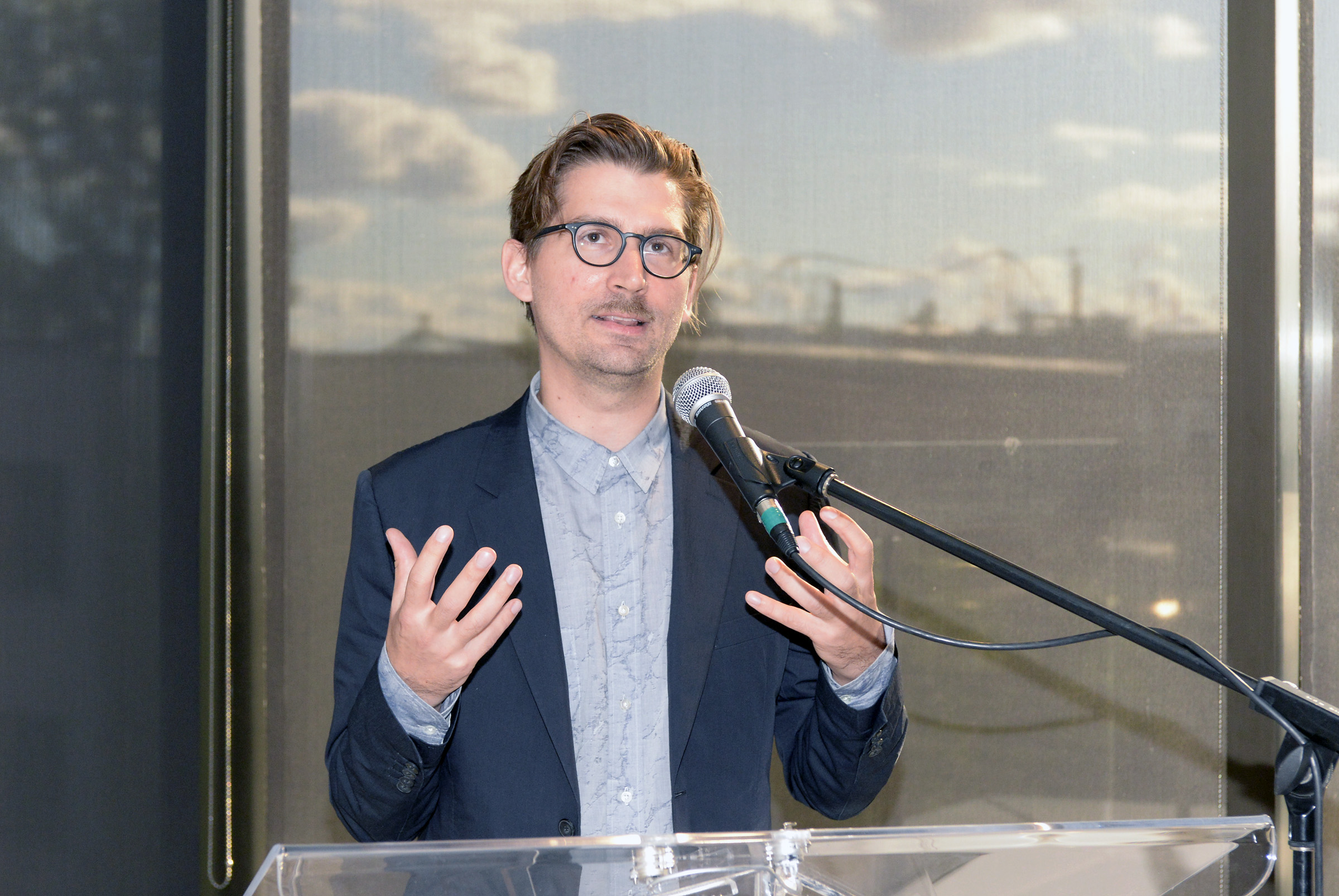 Jon Rafman